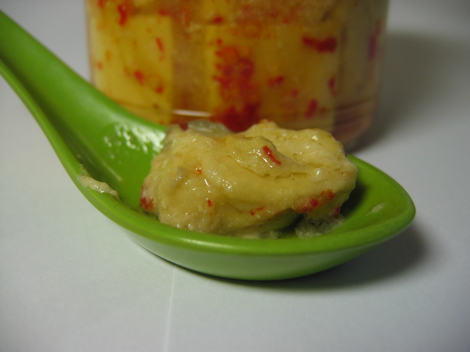 Pickled tofu